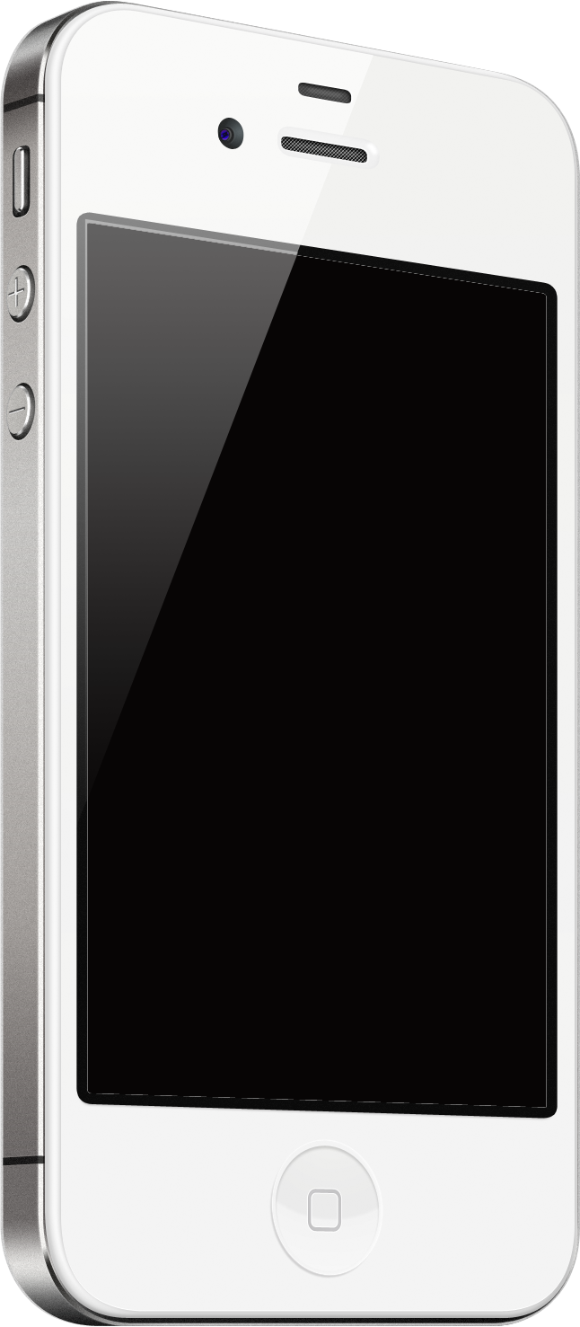 Side view of White iPhone 4S